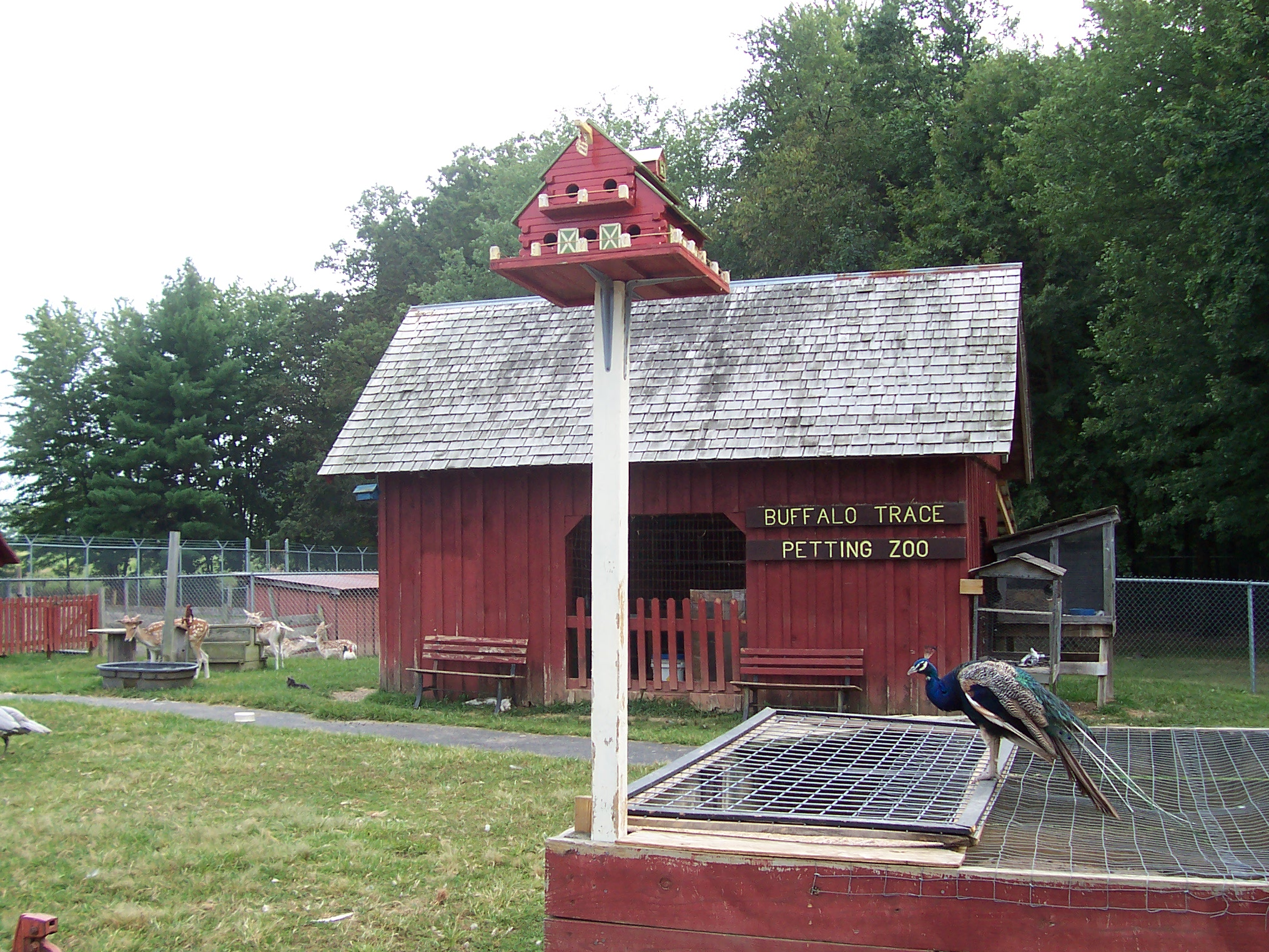 an image of the lake at buffalo trace park